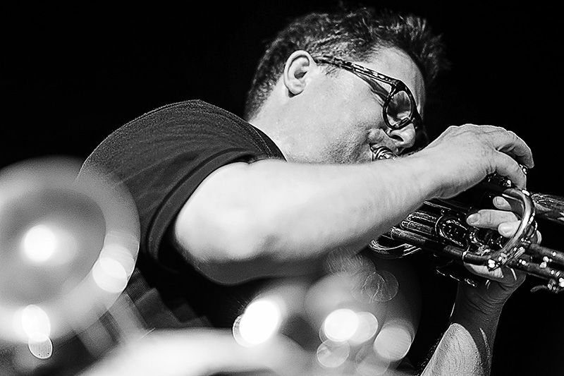 Kasper Tranberg at Aarhus Jazz Festival 2018 performing with Tim Berne (s), Petter Eldh (b), Peter Bruun (d)